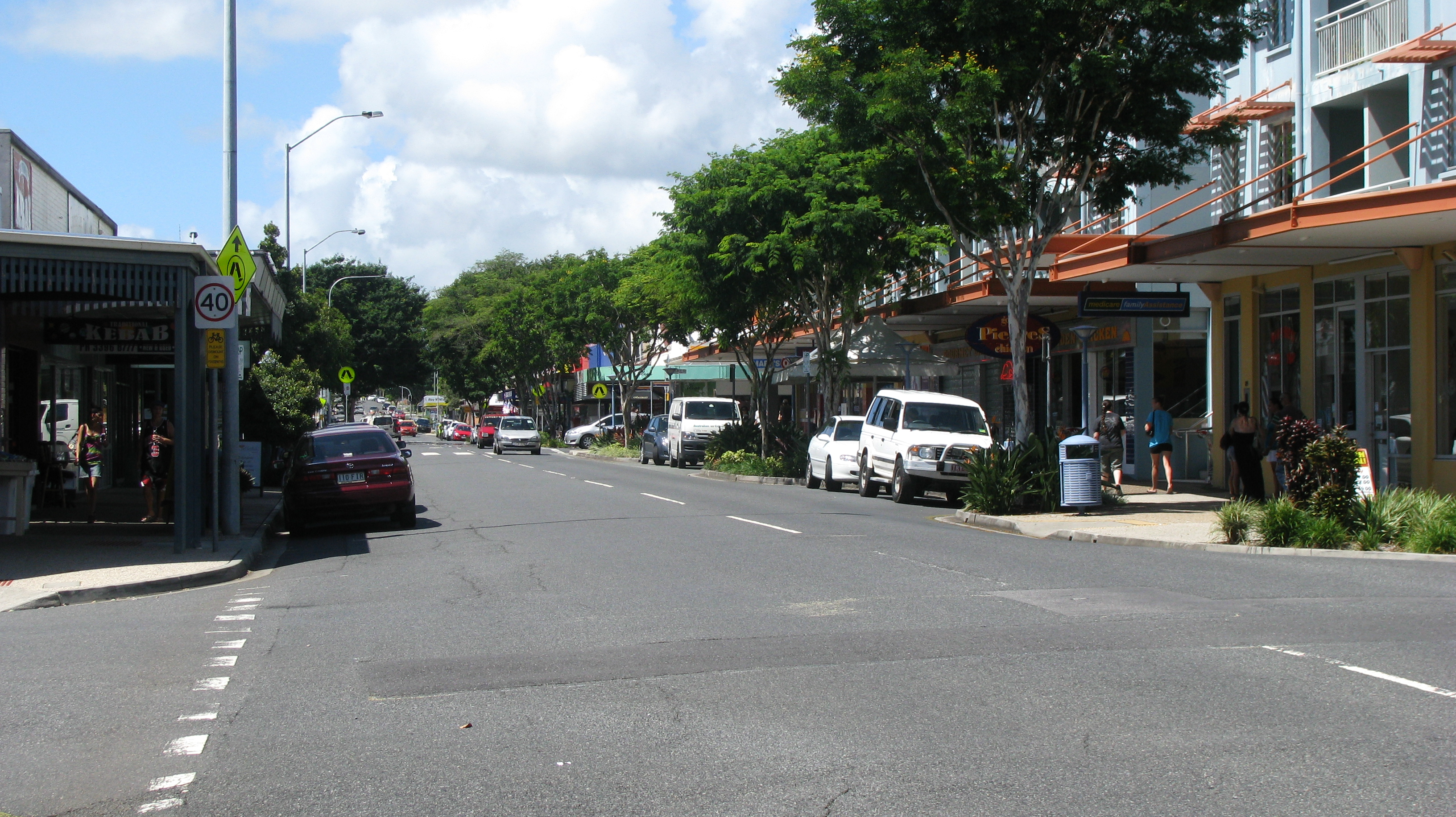 Wynnum CBD Bay Terrace, Wynnum, Brisbane